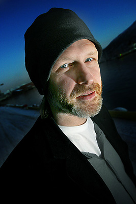 Norwegian actor Trond Espen Seim during the Tromsø International Filmfestival (TIFF) in 2008.